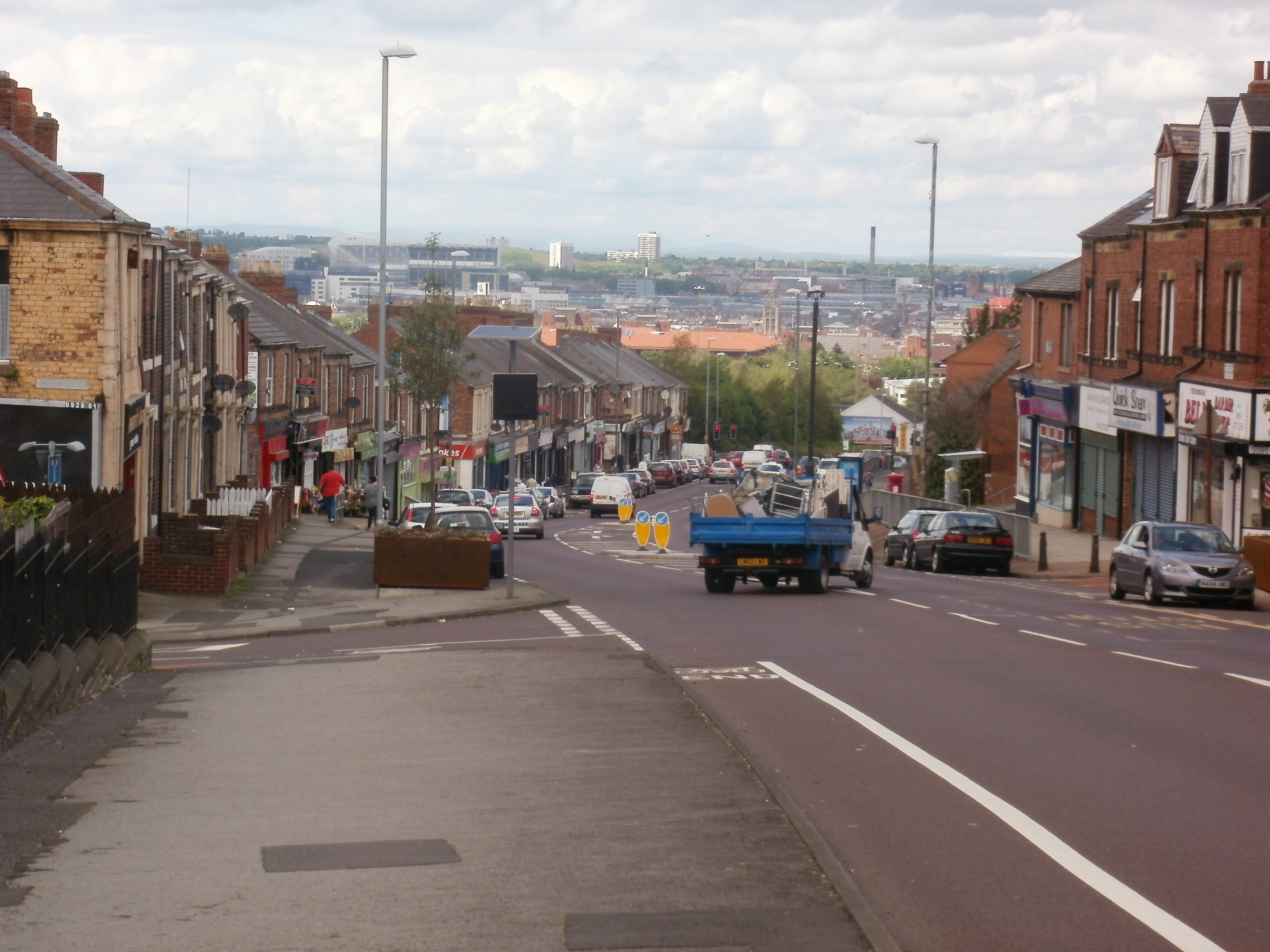 View from the southern 'top' of Old Durham Road, Deckham, Gateshead. The city in the background is Newcastle upon Tyne